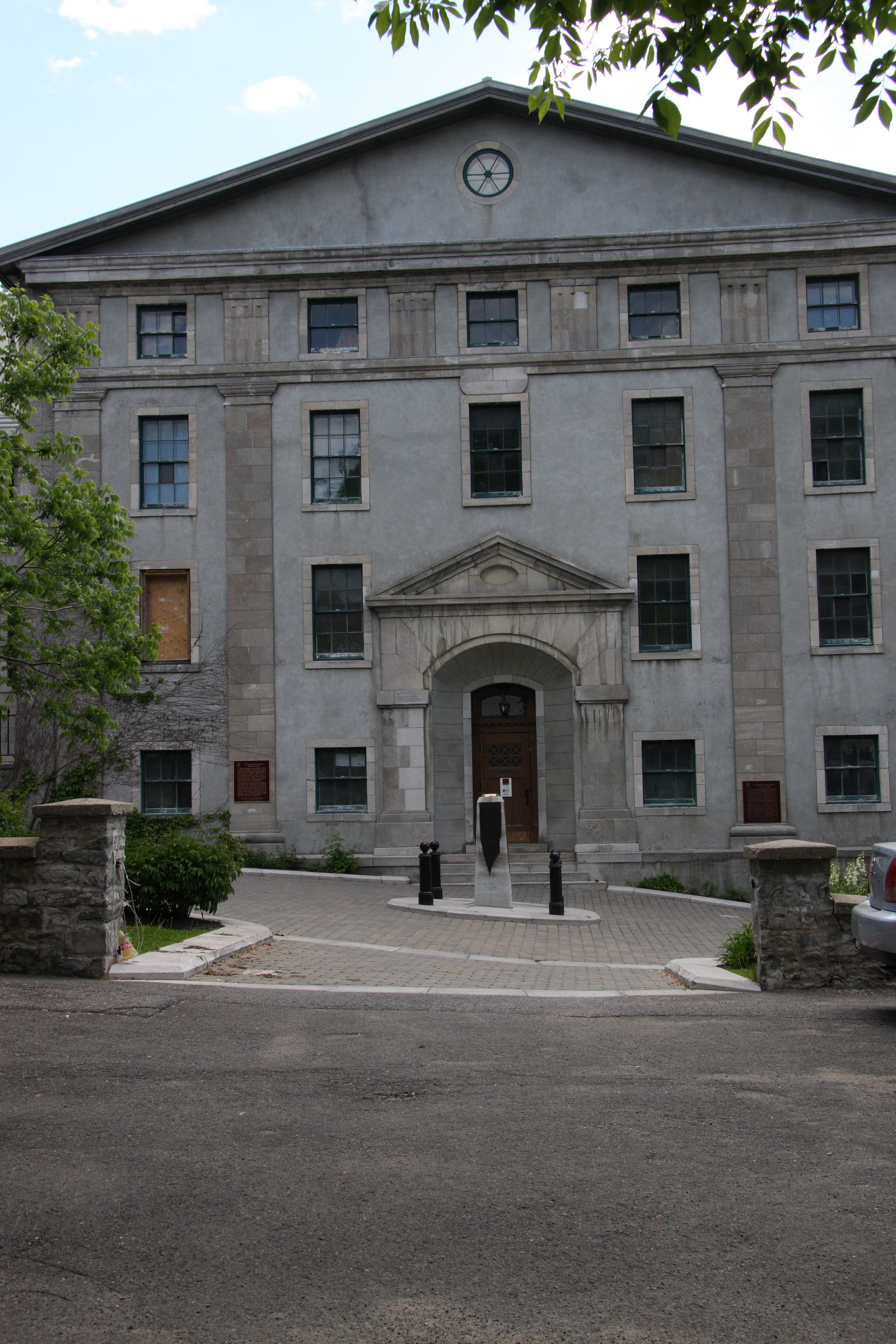 The old prison of Québec is the first in Canada to reflect the principles of John Howard, a British reformer who believed that cellular confinement, work, and education could rehabilitate criminals. Designed by local architect François Baillairgé and constructed between 1808 and 1814, the building was among the first in Québec to be inspired by the design principles of British classicism. With the completion of a new prison in 1861, this building was sold to Dr. Joseph Morrin and converted for use as an Anglophone junior college by the architect Joseph-Ferdinand Peachy. The Morrin Centre is a National Historic Site that houses a magnificent Victorian-era library. Historic Sites and Monuments Board of Canada, Government of Canada